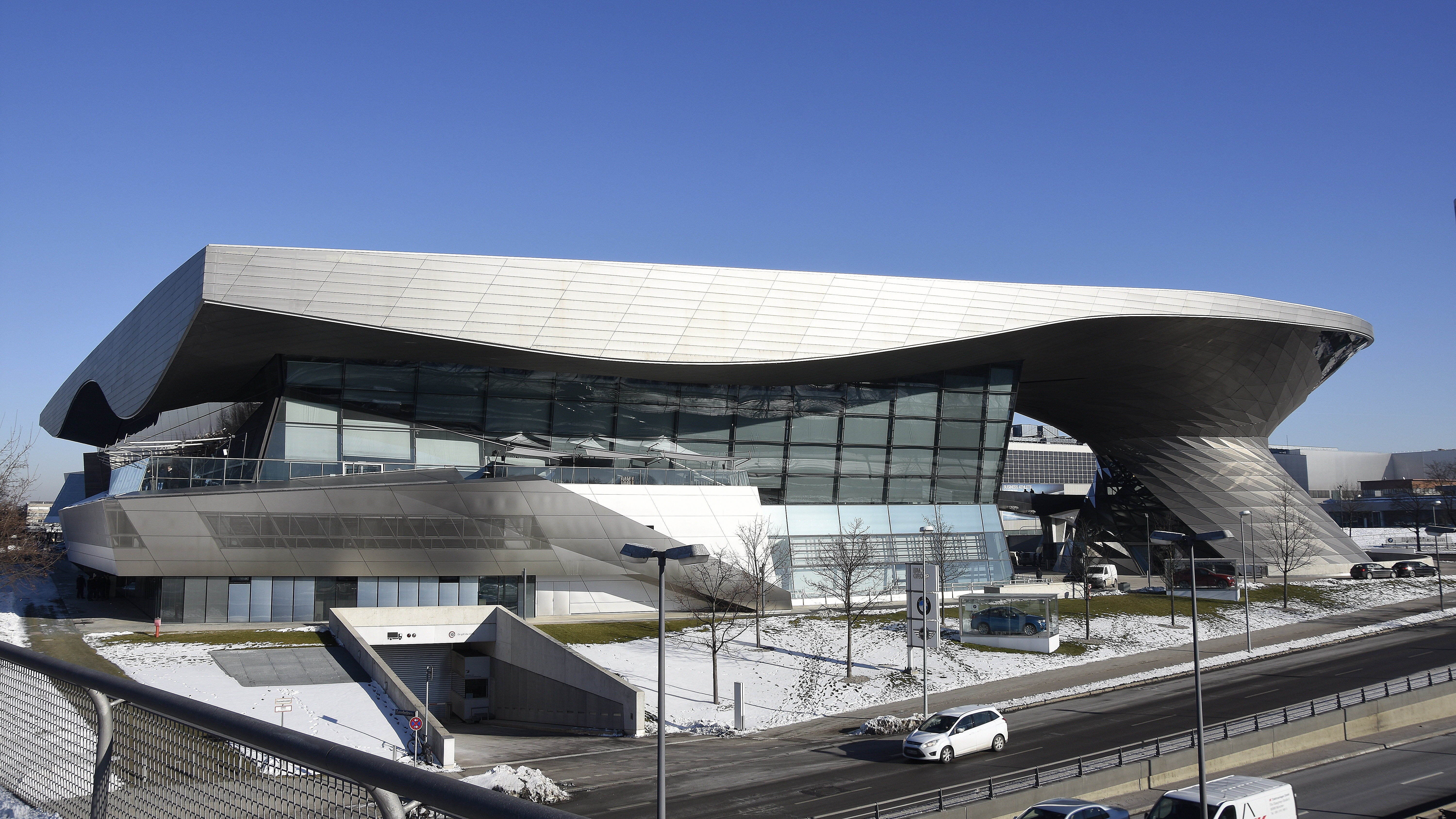 BMW Welt Munich